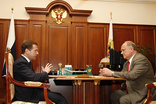 THE KREMLIN, MOSCOW. With the leader of the Communist Party of the Russian Federation Gennady Zyuganov.